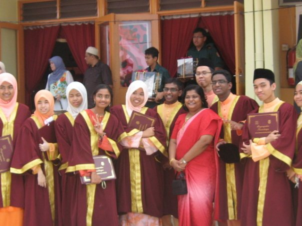 Hari Kecemerlang Kusses